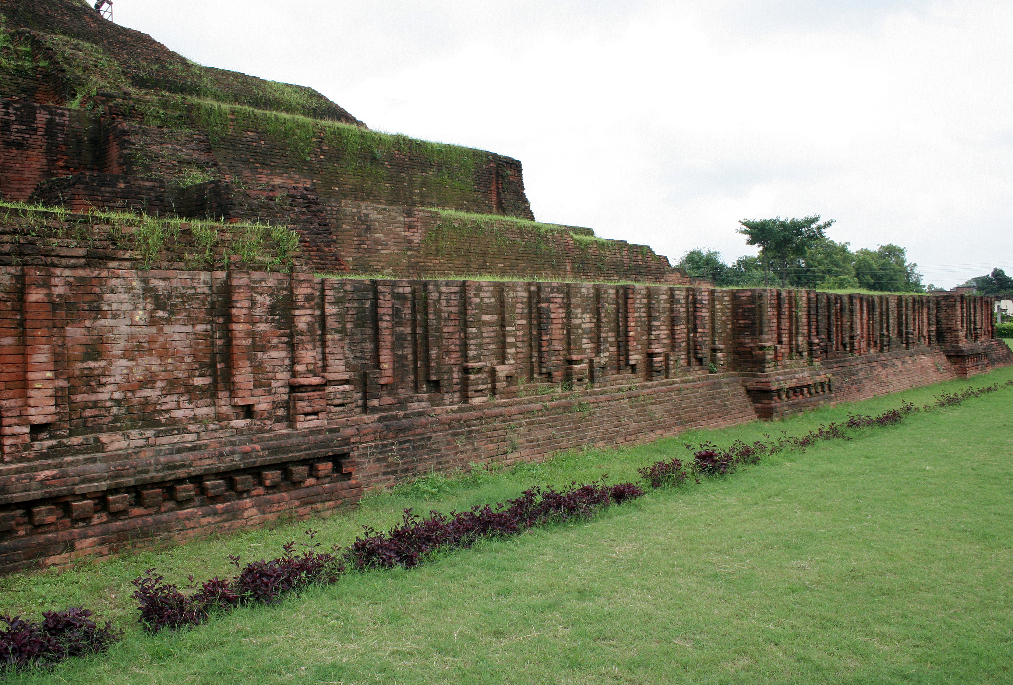 The wall below the Chaukhandi Stupa.